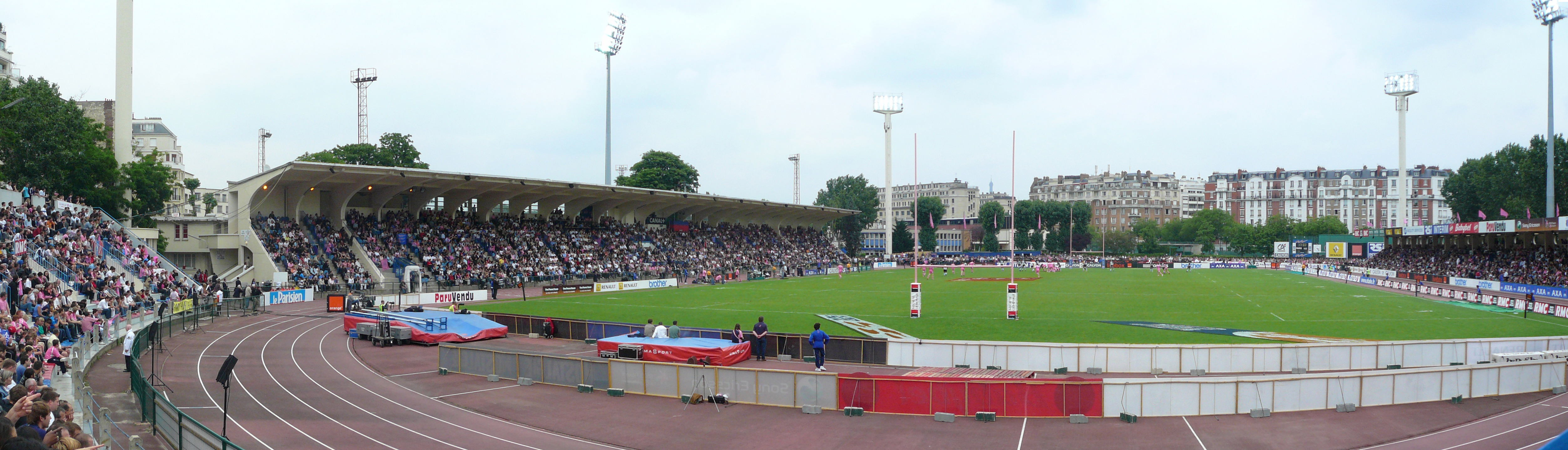 Jean-Bouin Stadium, Paris, home of the Stade français rugby club